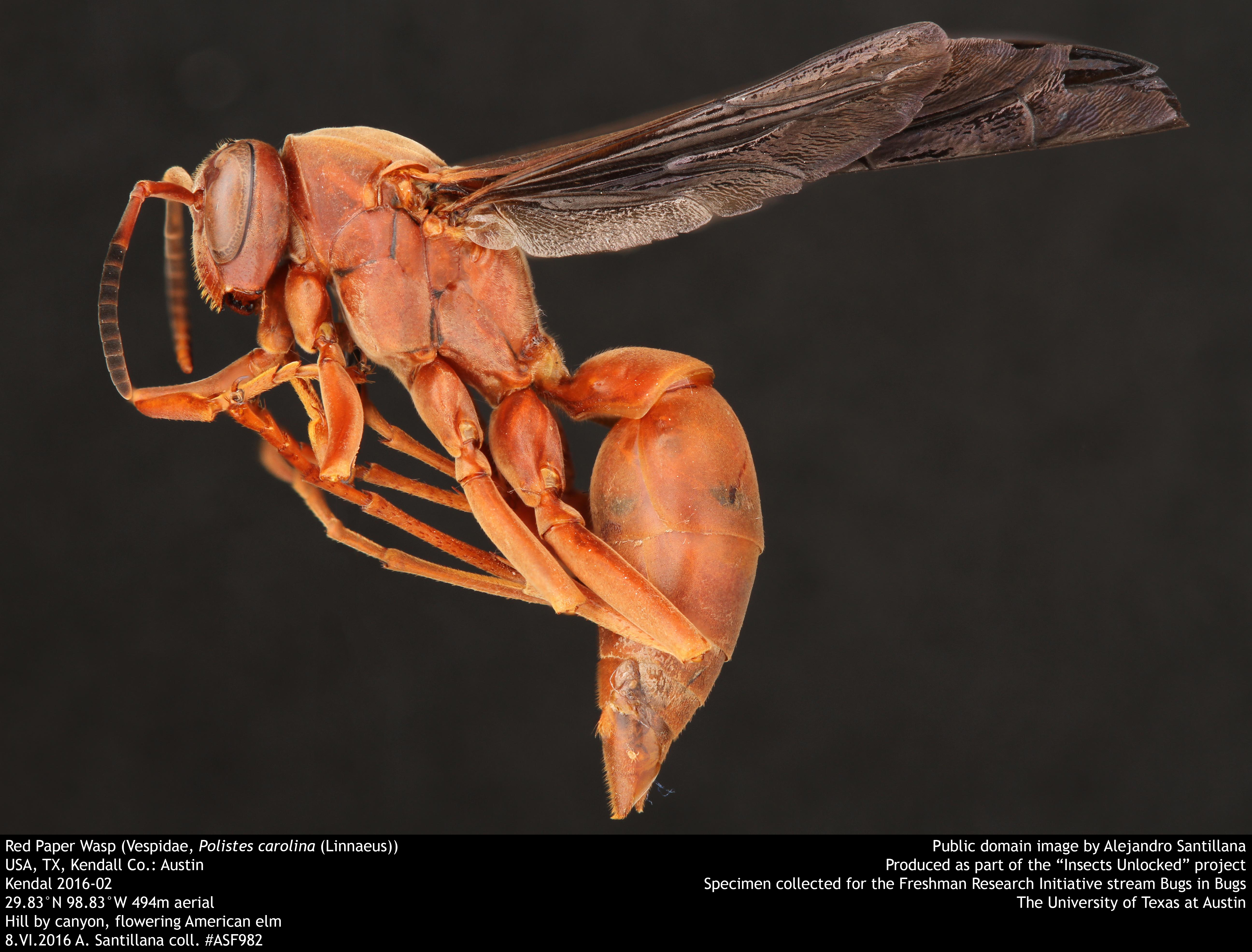 Red Paper Wasp (Vespidae, Polistes carolina (Linnaeus)) USA, TX, Kendall Co.: Austin Kendal 2016-02 29.83°N 98.83°W 494m aerial Hill by canyon, flowering American elm 8.VI.2017 A. Santillana coll. #ASF982